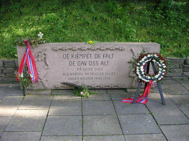 "Retterstedet" on Akershus Festning, 42 Norwegians executed here in IIWW